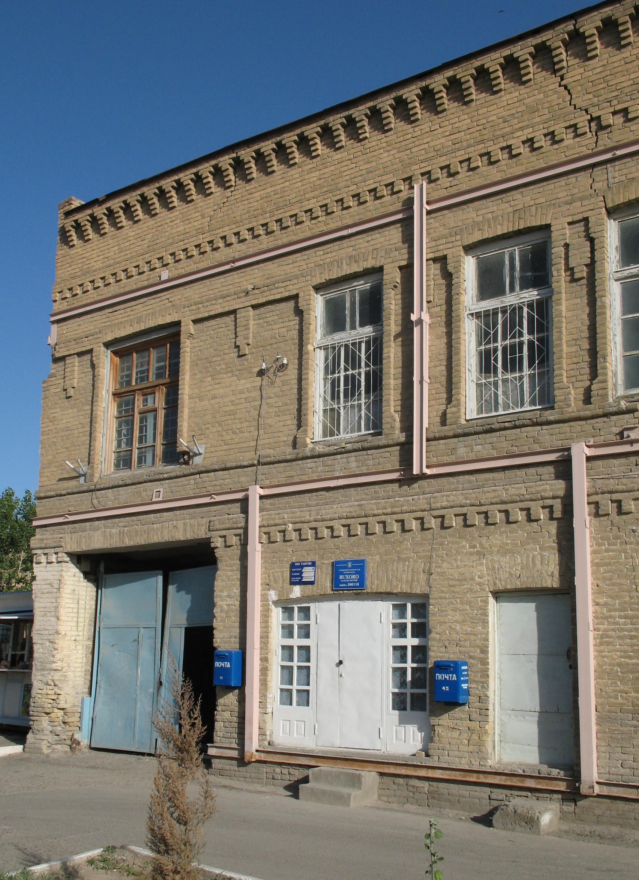 Post office in Bukhara, Uzbekistan